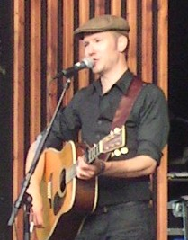 Swedish musician Martin Schaub performing (with his band West of Eden) in Gothenburg 2013